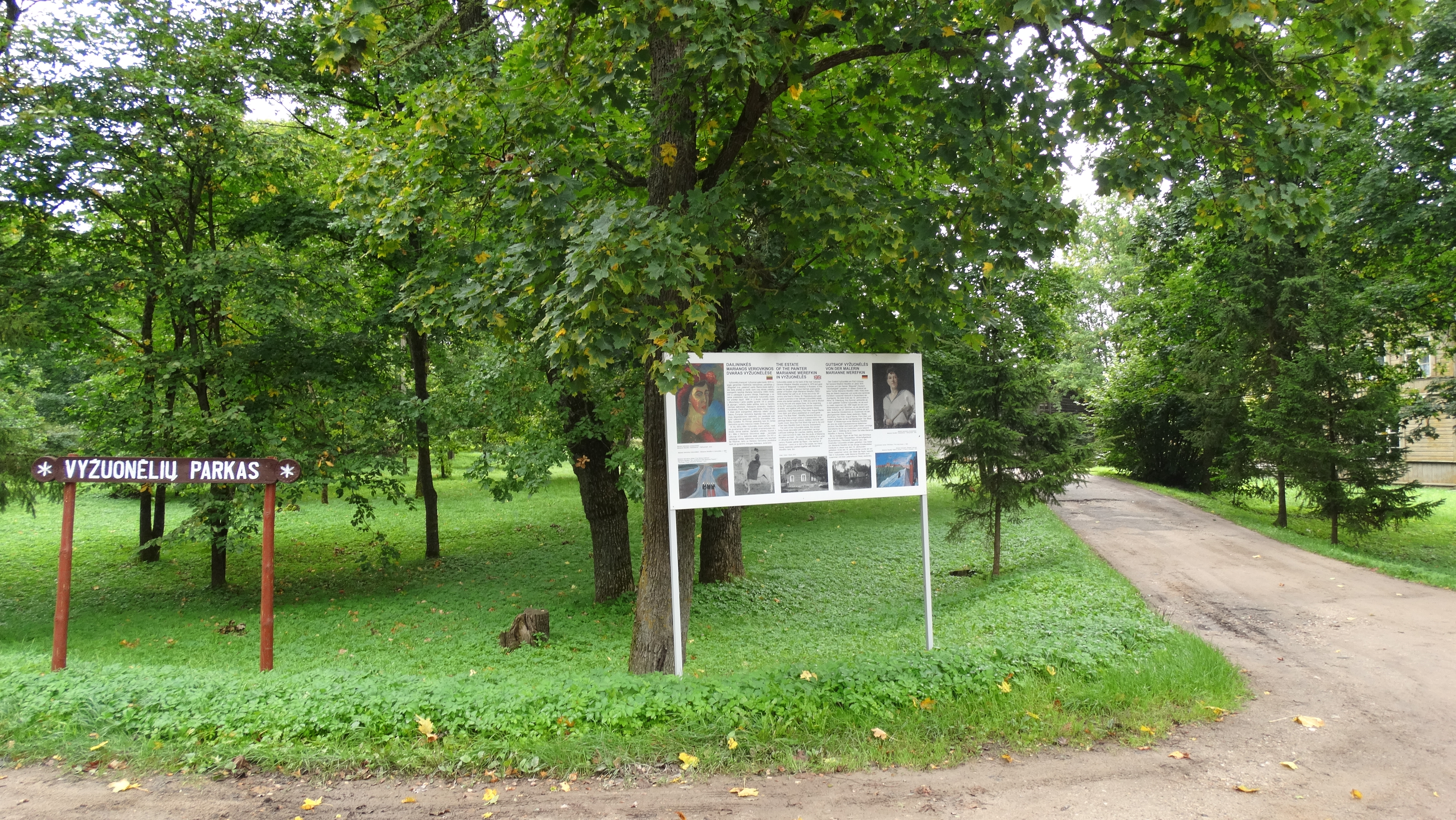 Vyžuonėlės manor, information board about Marianne von Werefkin, Utena district, Lithuania